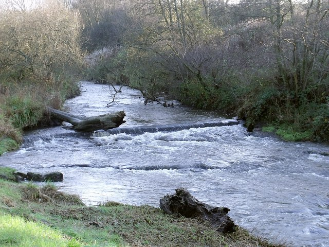 Luggie Water Ford The river in spate rushing over the old ford at Waterside. The ford was still in use in the 1960s but seems to have been closed since then.